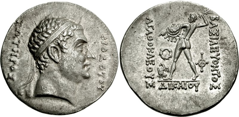 Agathokles commemorative coin for king Diodotos Sotiros. Circa 185-180 BC. AR Tetradrachm (16.96 g, 12h). Commemorative issue struck for Diodotos I. ΔIOΔOTOY down right field, ΣΩTHPOΣ down left, diademed head of Diodotos I right; all within pelleted border / BAΣIΛEYONTOΣ down right field, AΓAΘOKΛEOYΣ down left, ΔIKAIOY in exergue, Zeus Bremetes, seen from behind, advancing left, brandishing aegis and thunderbolt